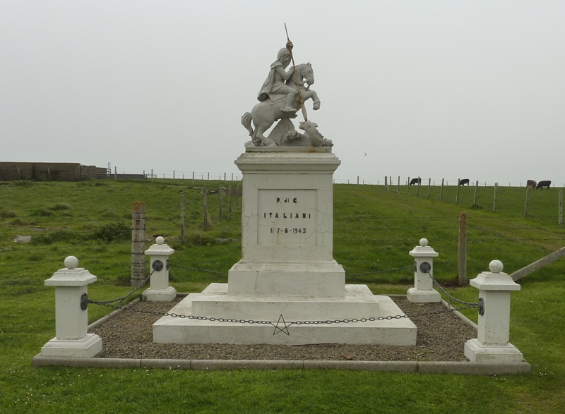 The Italian Chapel, Lamb Holm, Orkney, Scotland. Statue of St. George and the dragon.